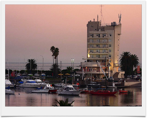 Buceo's harbour in Montevideo, Uruguay.